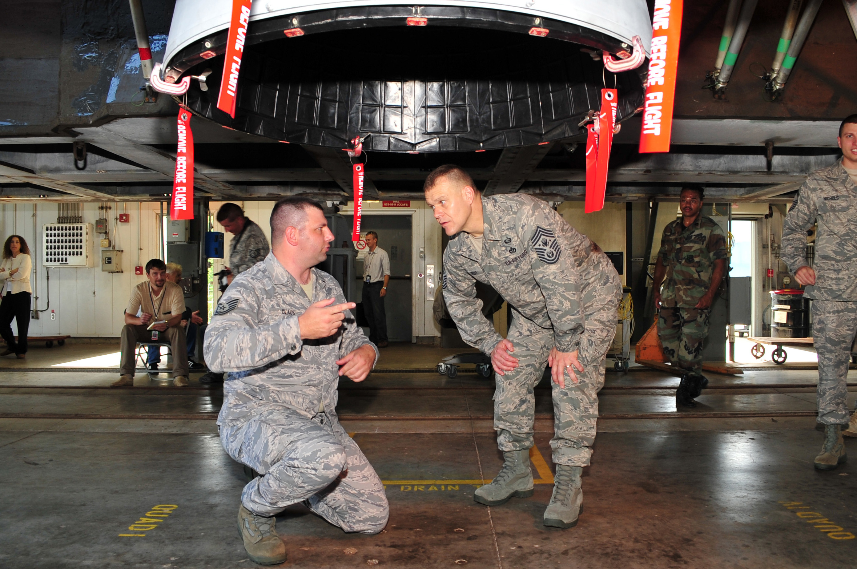 U.S. Air Force Tech. Sgt. Michael Claus, of the 5th Space Launch Squadron at Patrick Air Force Base, Fla., shows Chief Master Sgt. of the Air Force James Roy the underside of an Atlas V rocket on the launch pad at Cape Canaveral Air Force Station, Fla., Aug. 21, 2009, during Roy’s visit to the station.